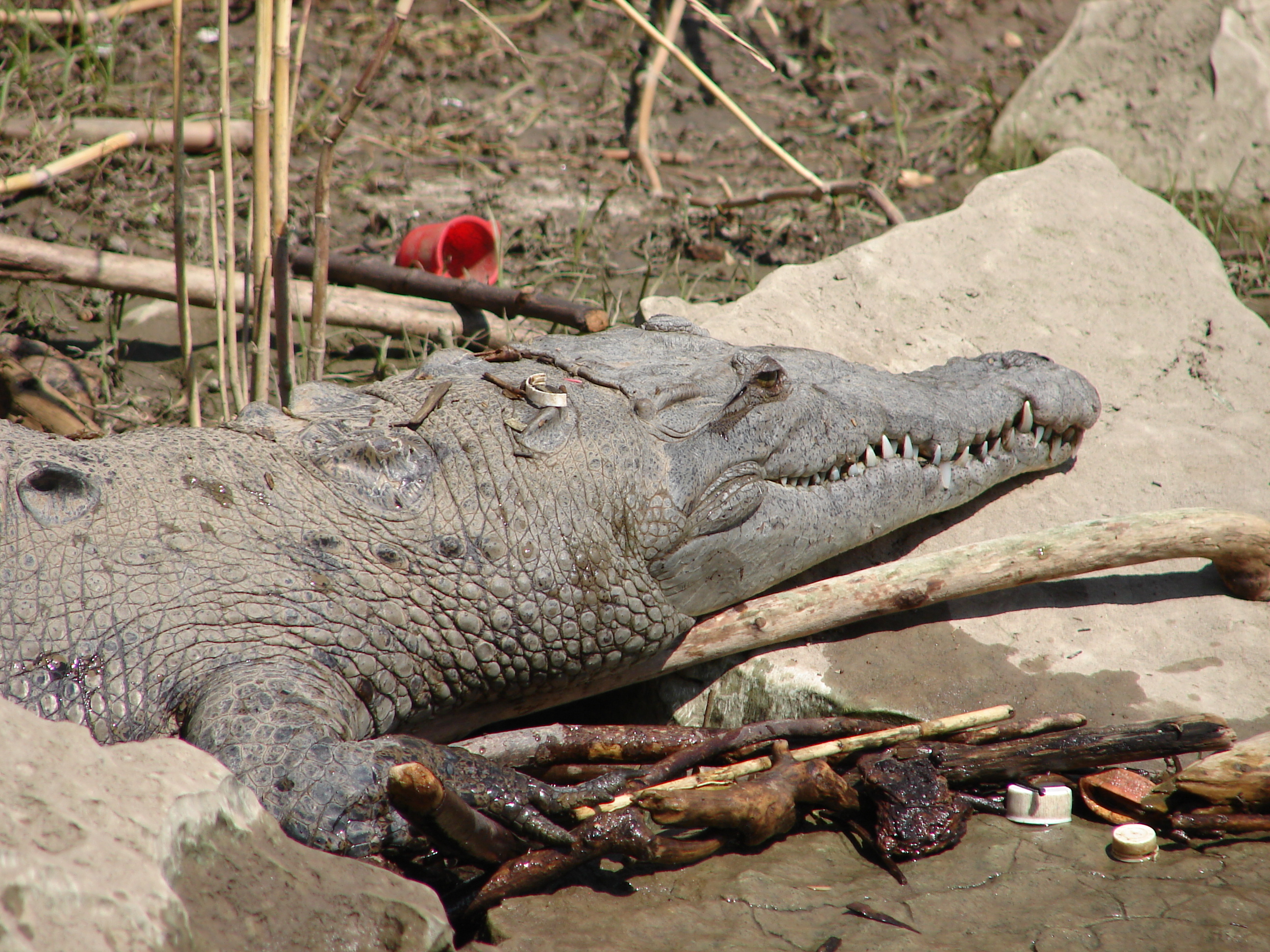 American Crocodile (Crocodylus acutus) — on bank of Grijalva River. In Sumidero Canyon — in the state of Chiapas, Southwestern Mexico.